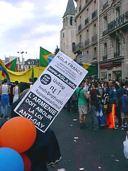 AGLA France takes part in the annual Gay and Lesbian Pride March in Paris. Banner reads "Armenian must abolish the anti-gay law", June 2002